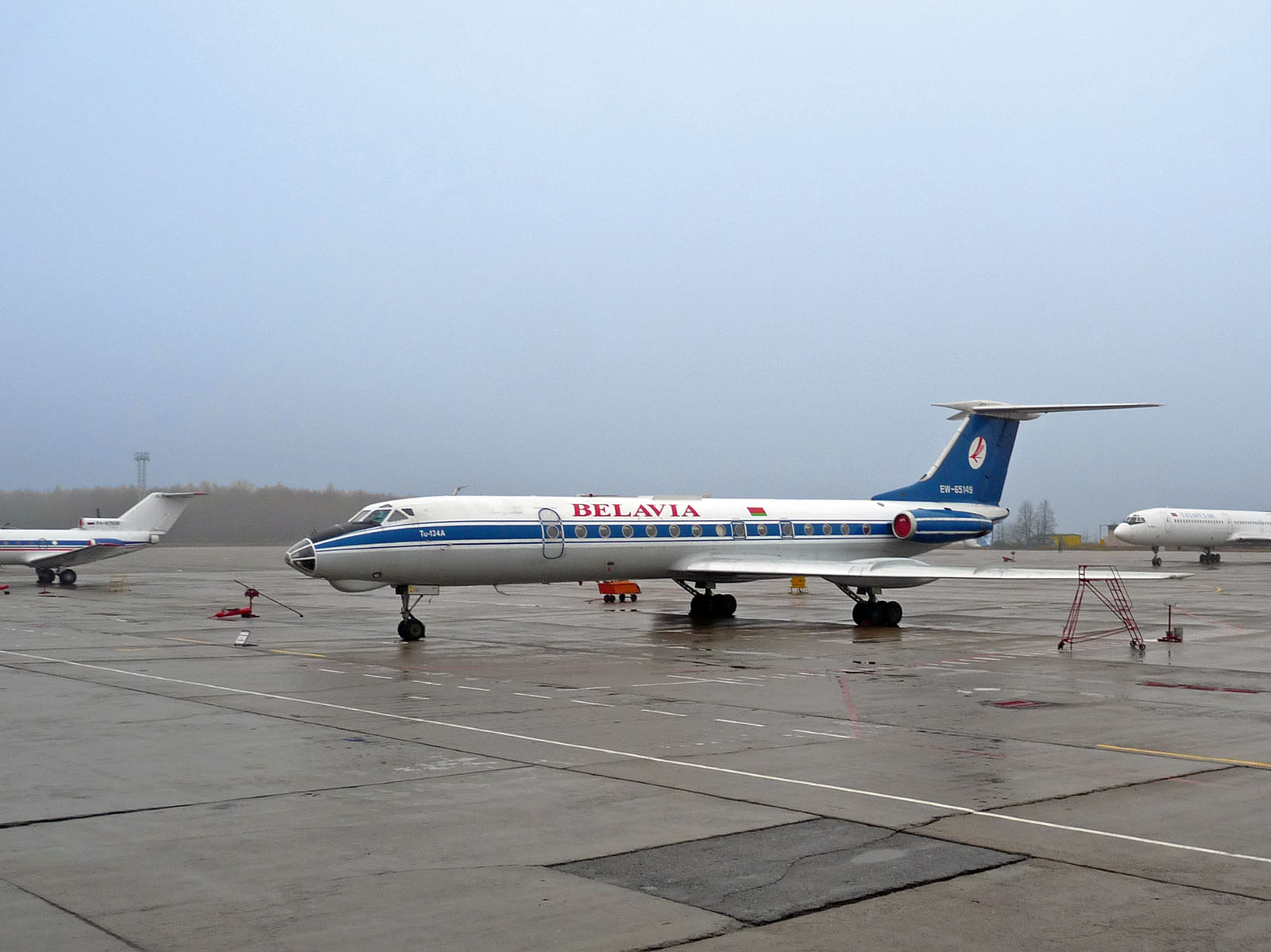 Belavia Tupolev Tu-134 (EW-65149) in Kazan Airport